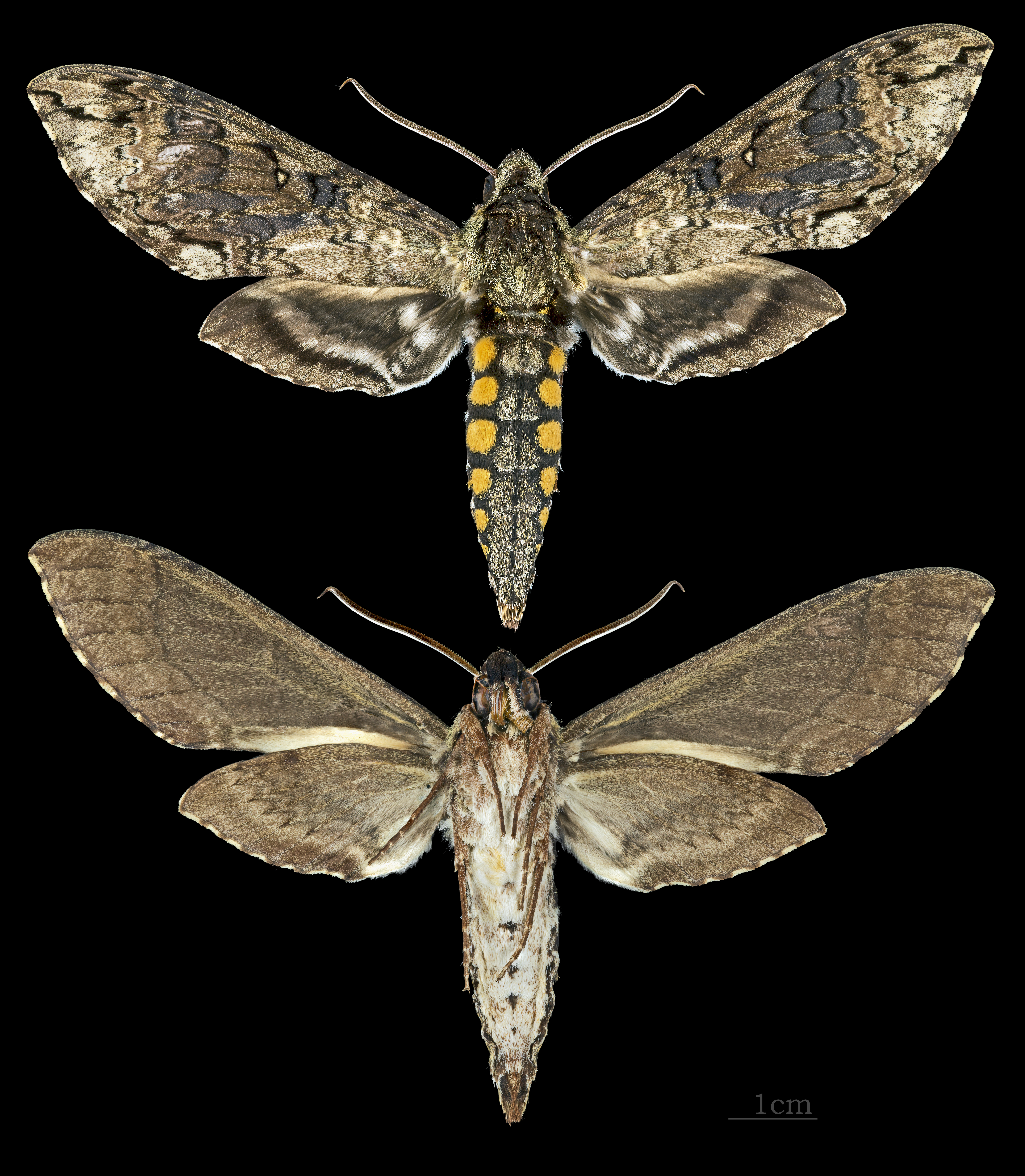 Manduca brasiliensis - Two views of same specimen Collection of the Mathematician Laurent Schwartz